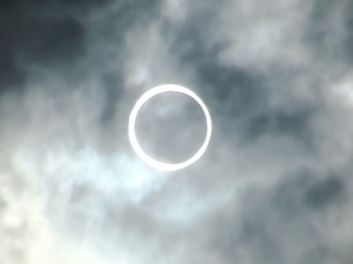 Kofu, Yamanashi, Japan, May 21, 2012 solar eclipse